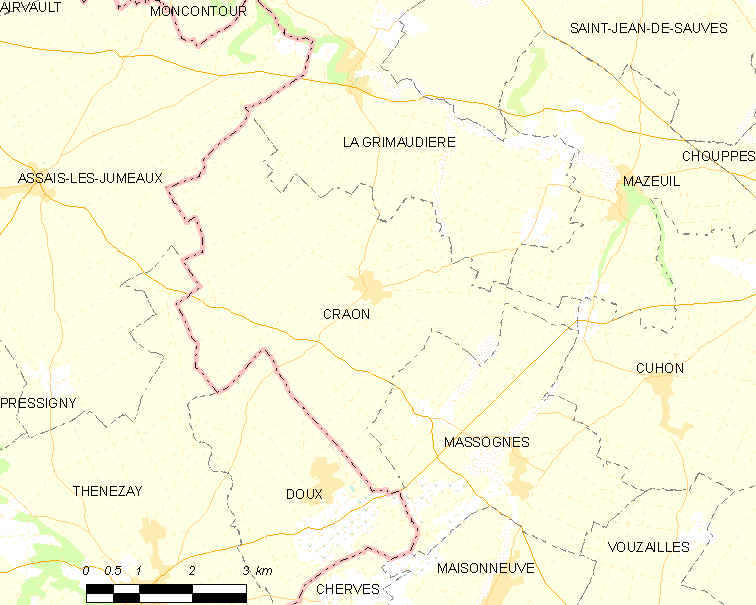 Map of French municipality Craon